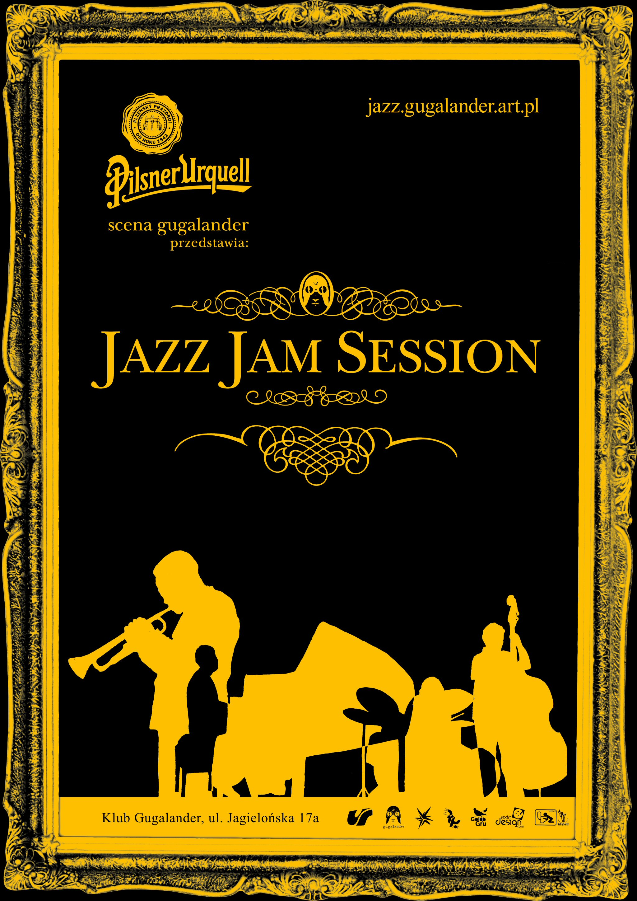 Graphic created by one of our graphic designers